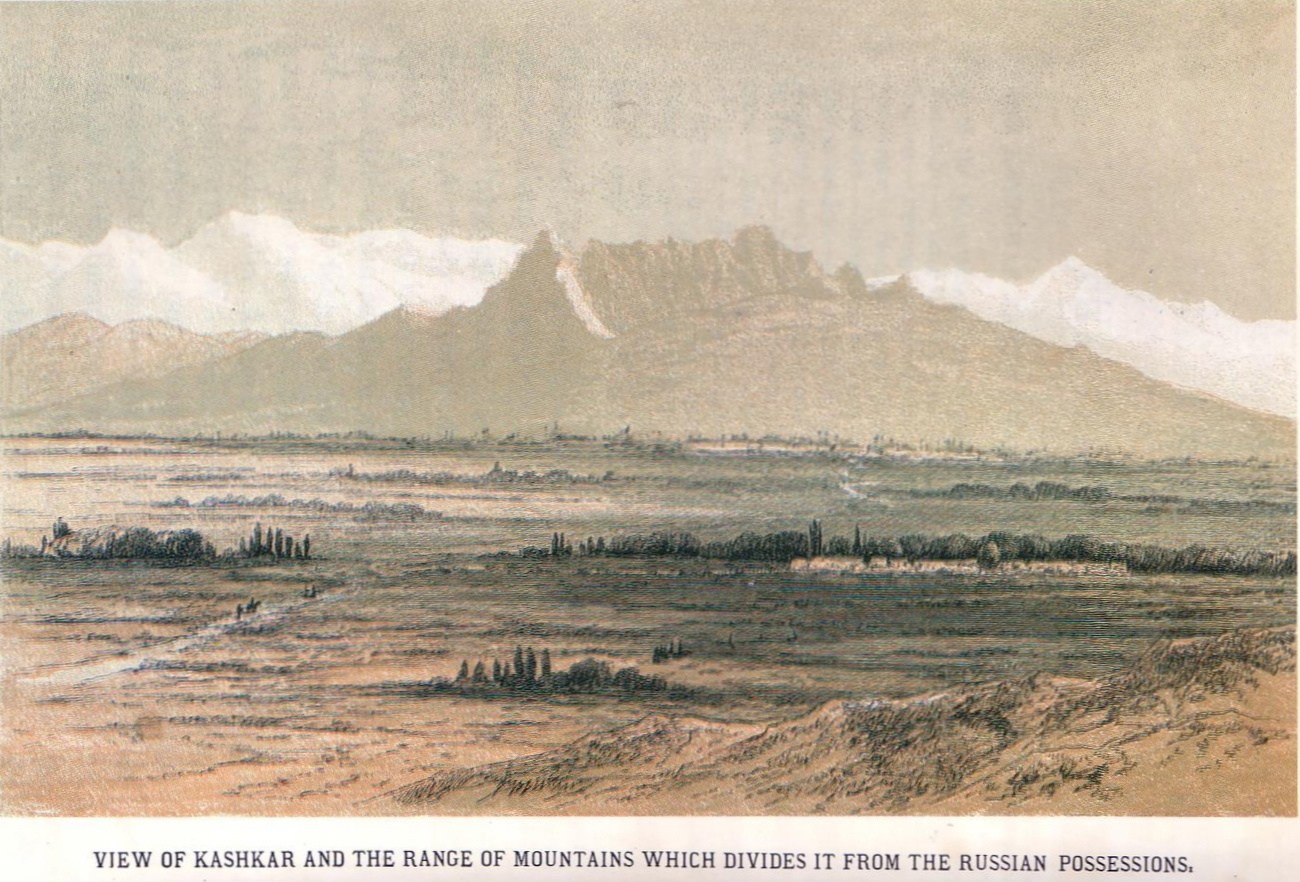 Taken from Robert Shaw's 1871 book, Visits to High Tartary.... No copyright.